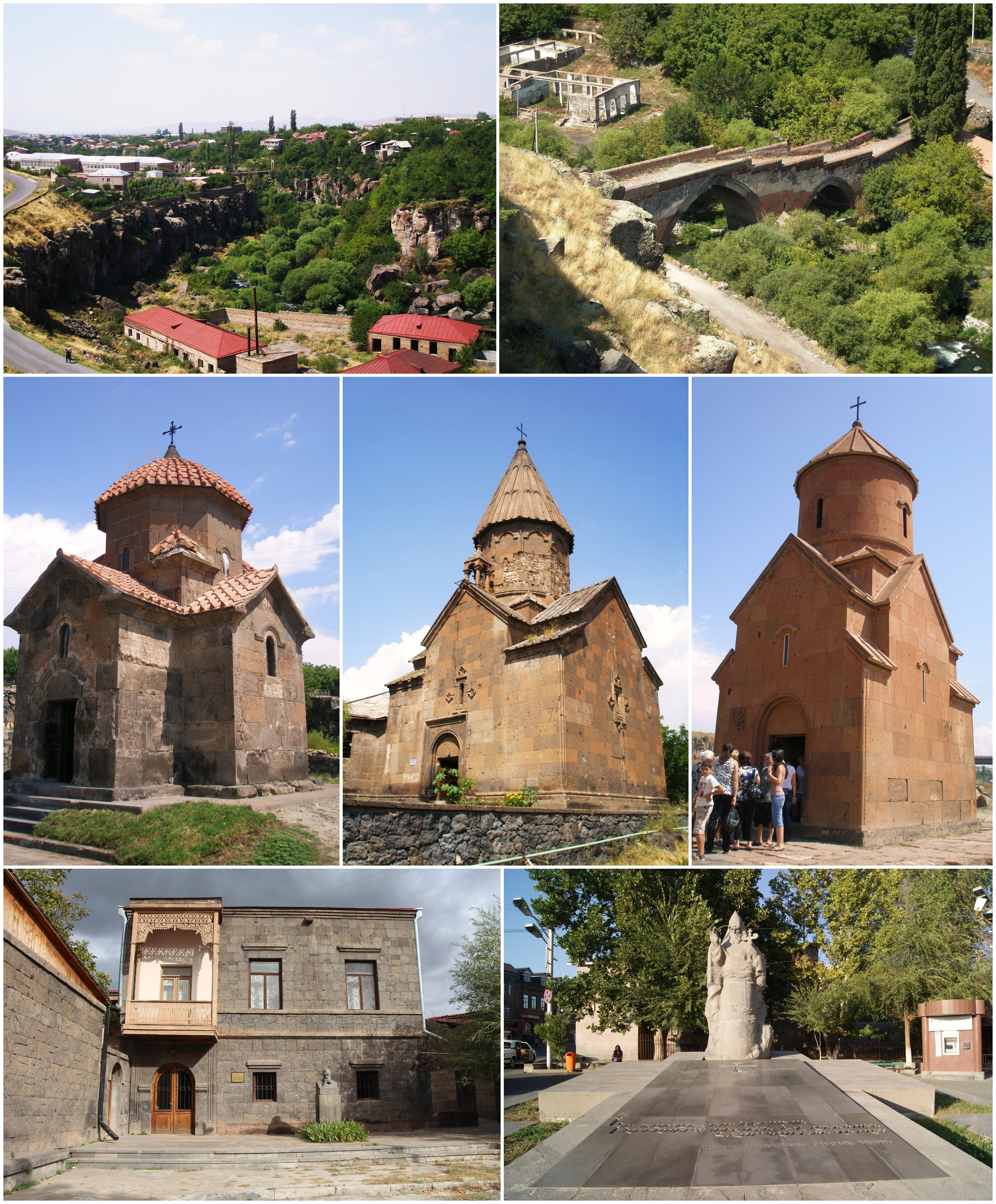 Ashtarak city landmarks